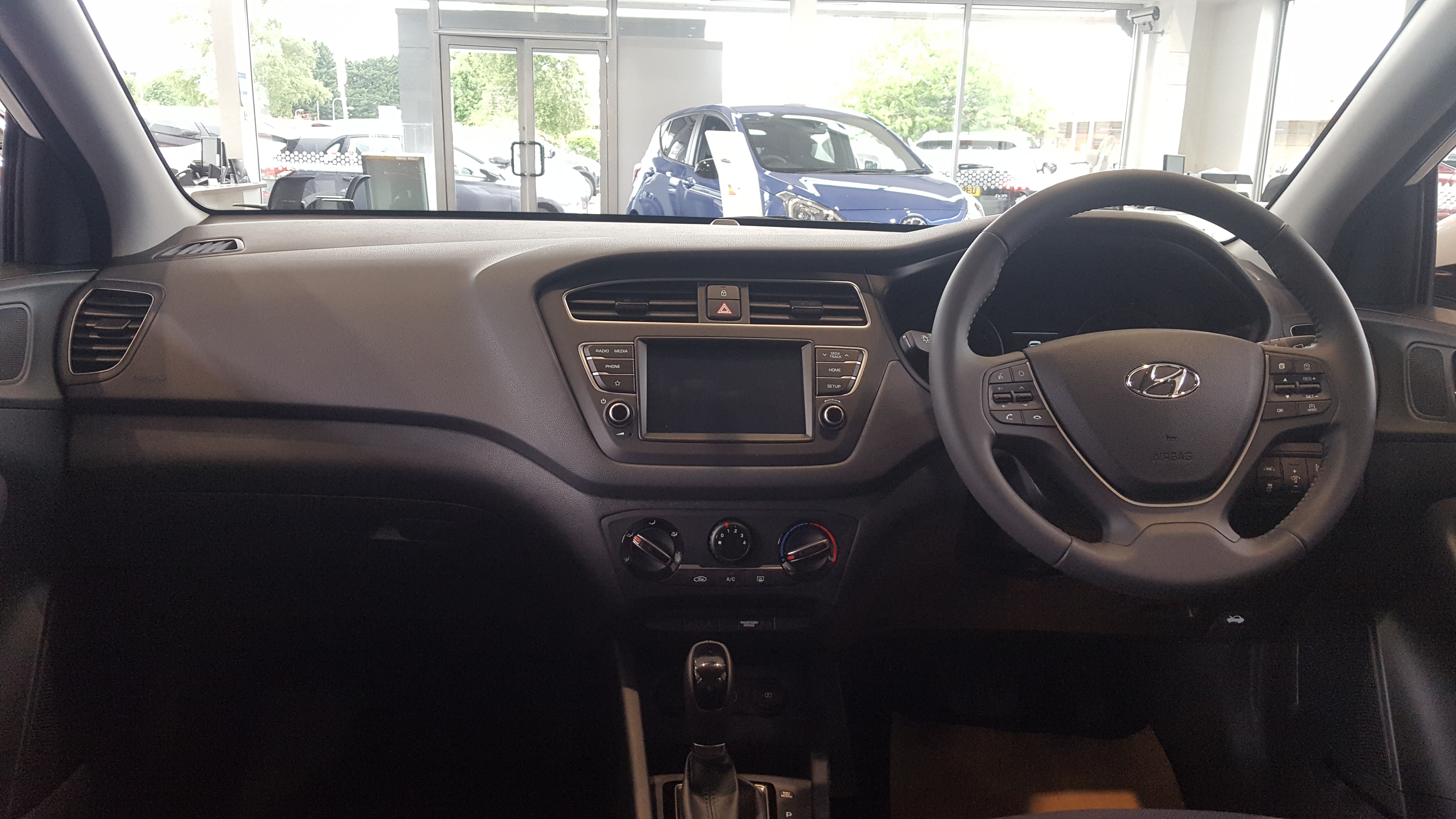 2018 Hyundai i20 facelift Interior Taken in Warwick